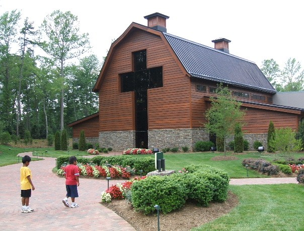 Billy Graham Library and Grounds